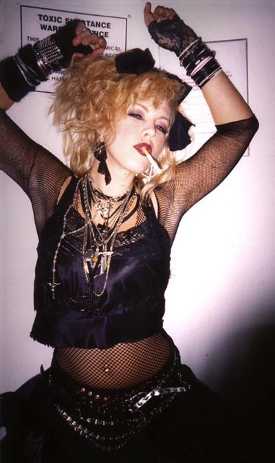 A model showing Madonna's early fashion style in the mid-1980s.